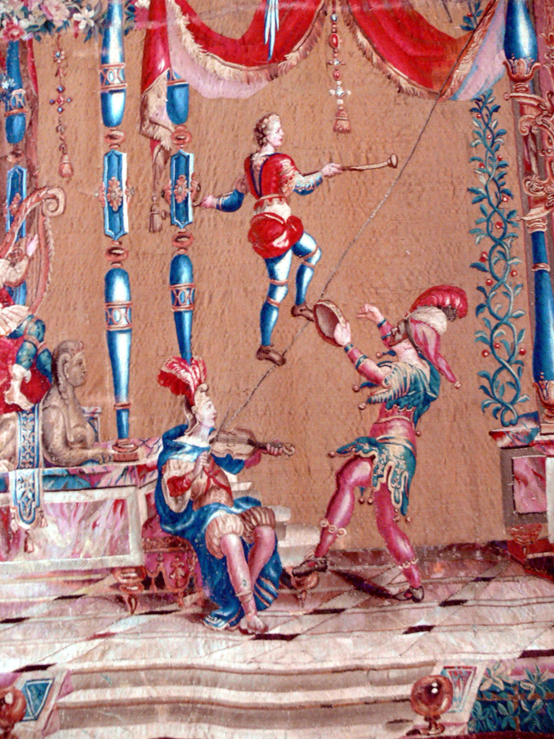 Kronborg castle. Gobelin ( 1700 ) from Beauvais made by Jean Behagle. Detail showing acrobats at a tight rope.